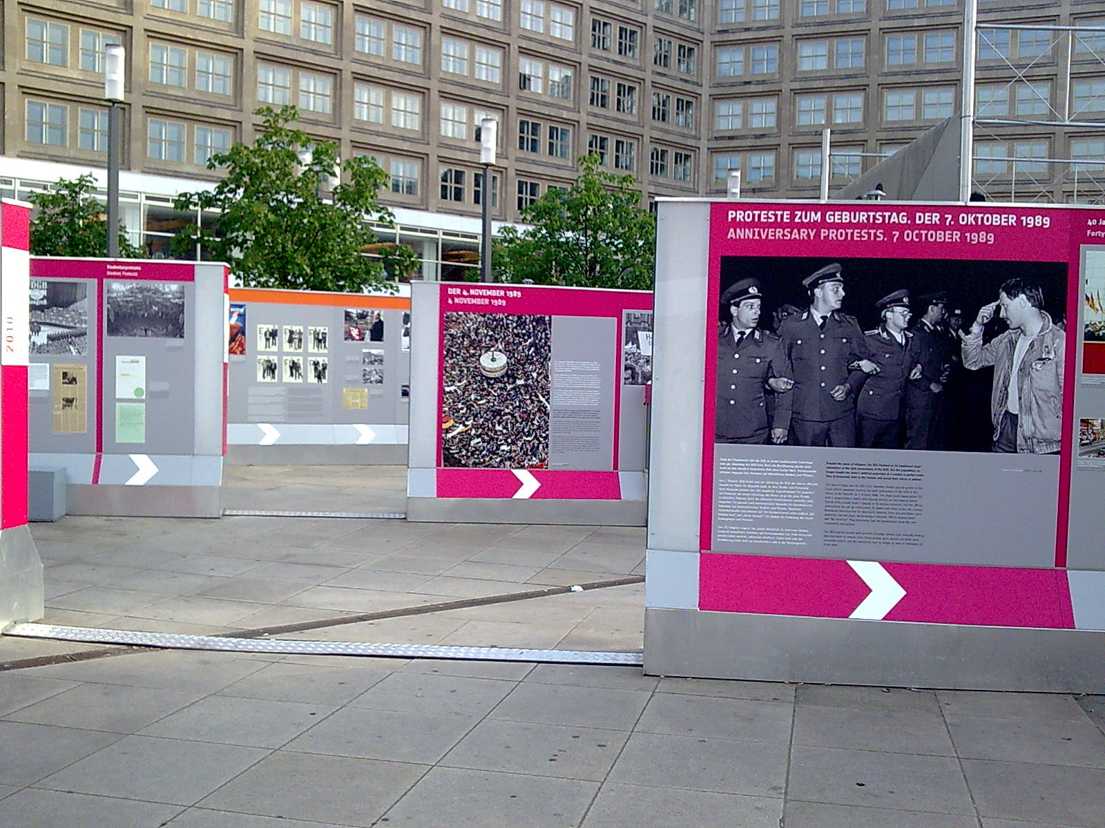 Berlin Wall memorial 2010